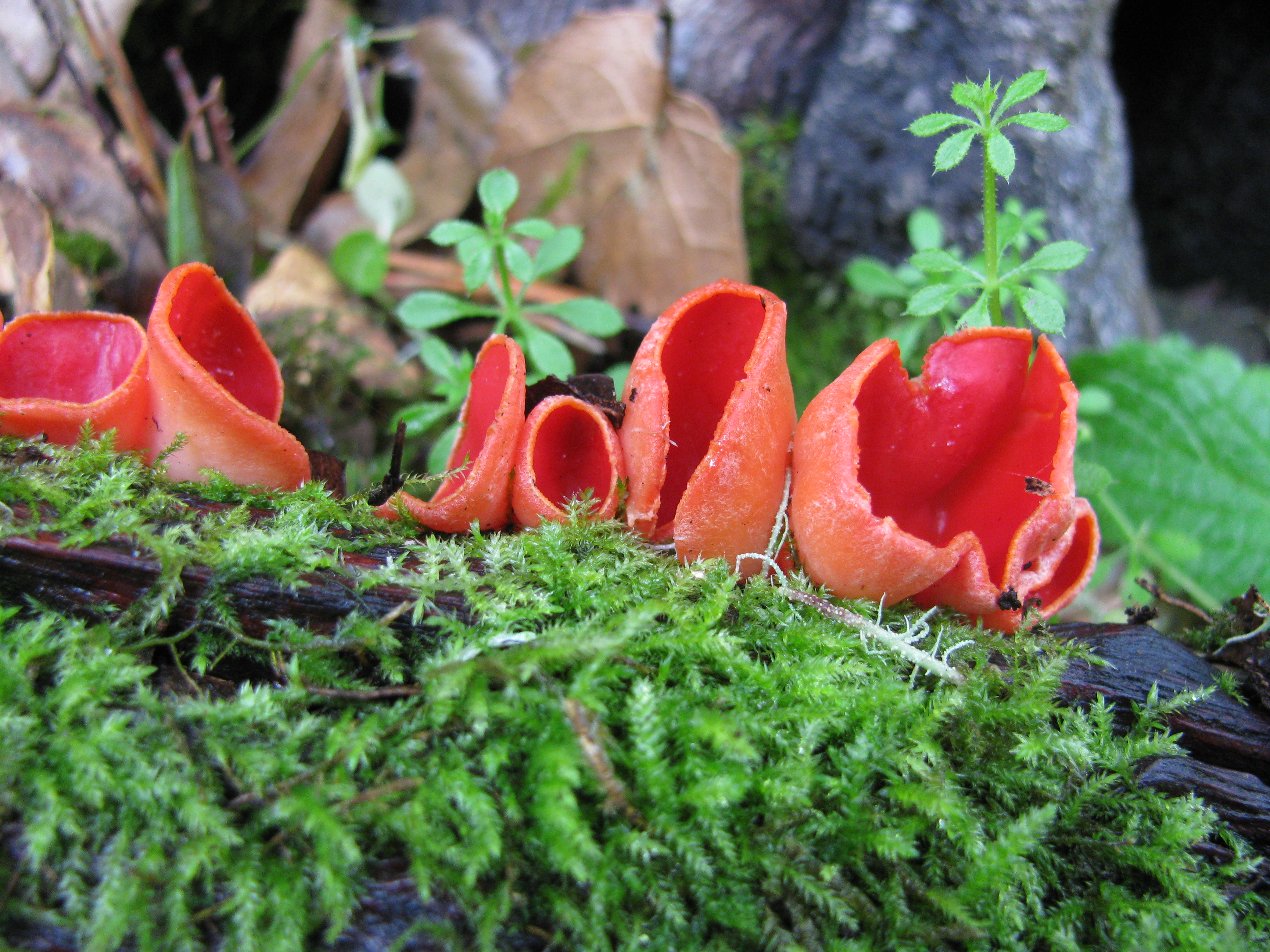 The cup-fungus Sarcoscypha coccinea (Jacq.) Sacc. Photographed in Tomales Bay SP, Heart’s Desire Beach woods, Marin CO, CA, USA.